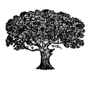 Ambrosius Oak, Tåsinge, Denmark in black and white profile